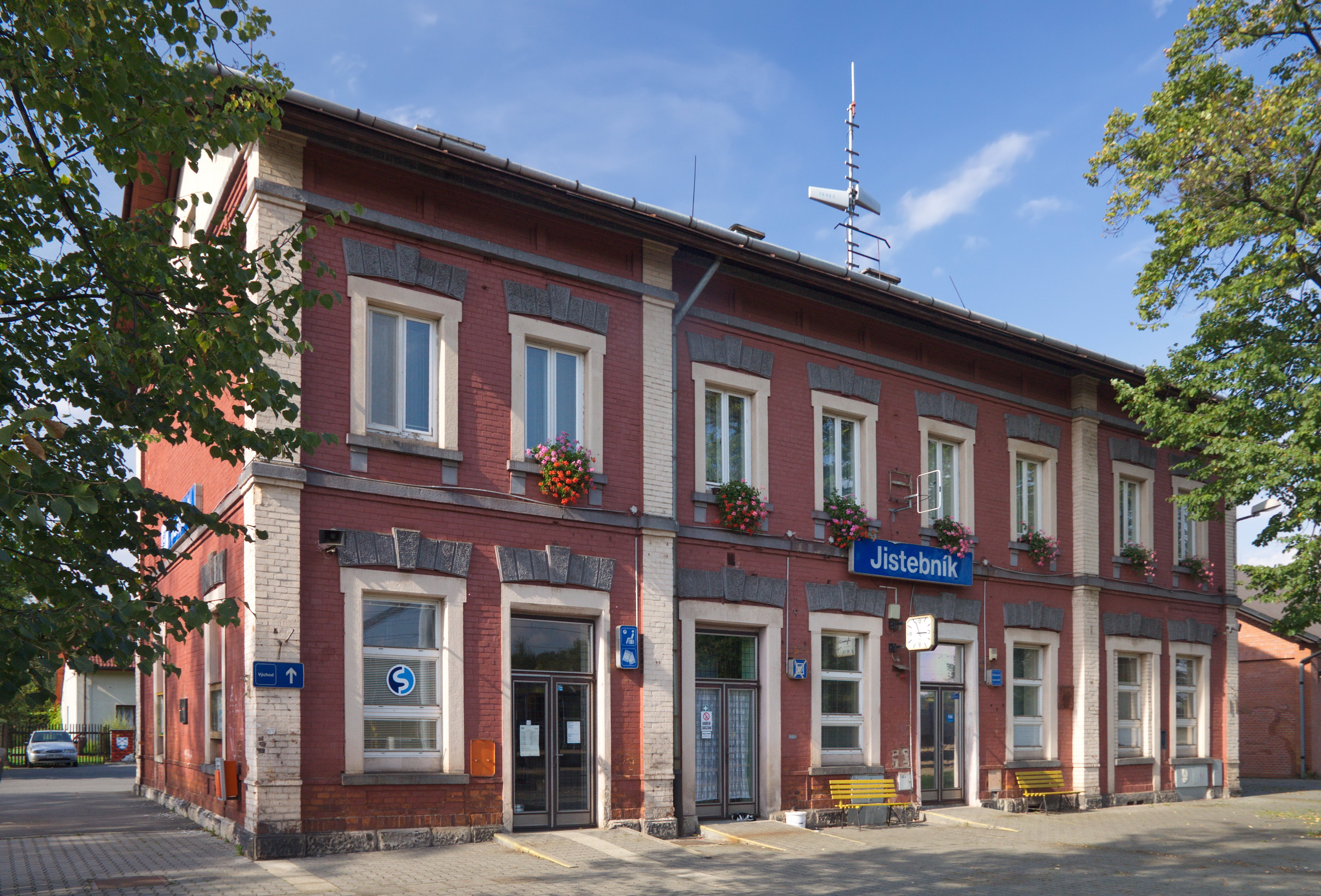 Railway station, Jistebník. Moravian-Silesian Region, Czech Republic.